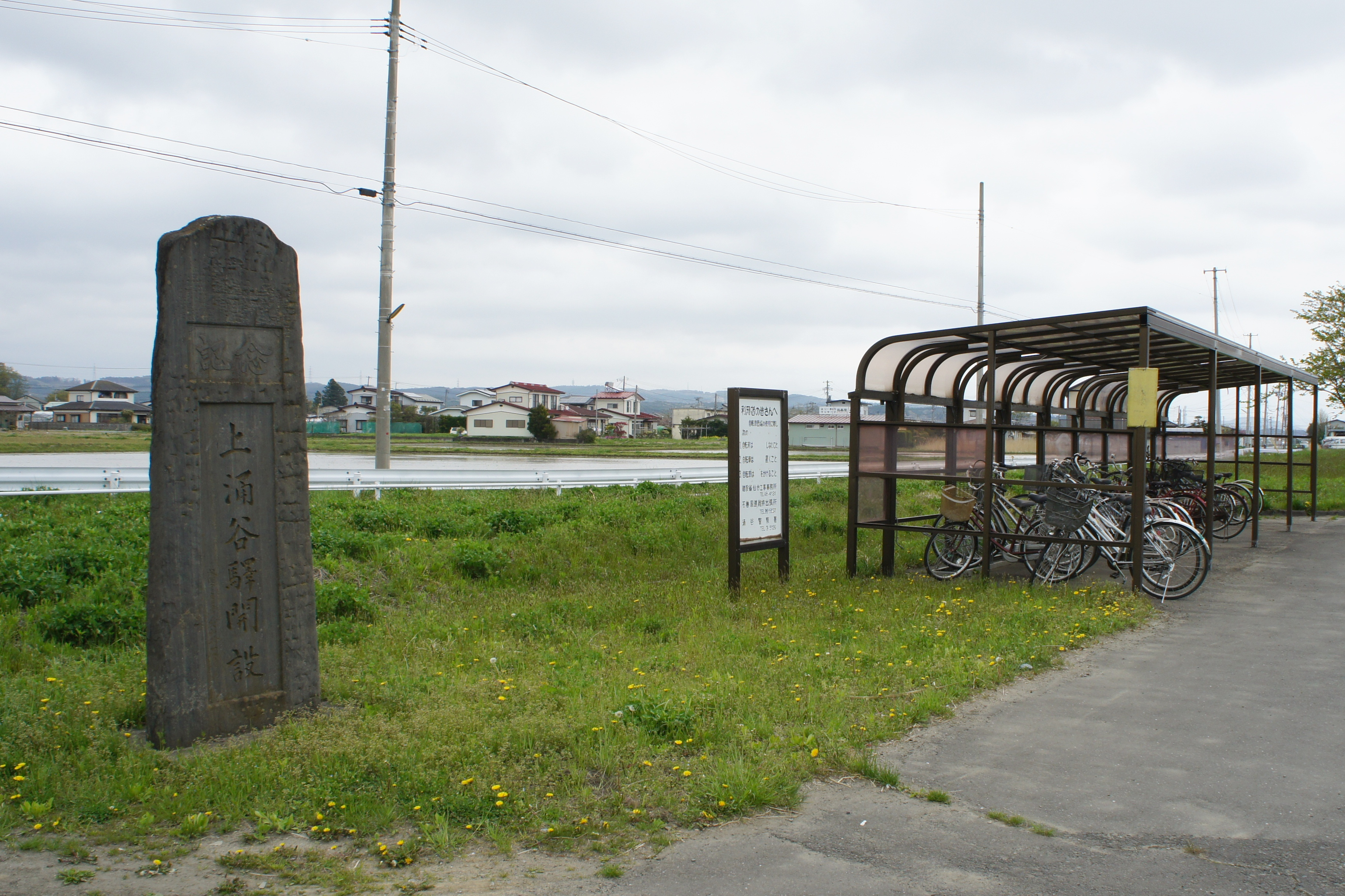 Kami-Wakuya Station, Wakuya, Miyagi, Japan